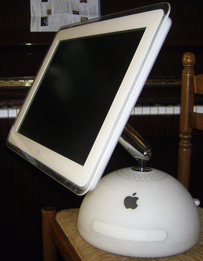 Apple iMac G4 (17" 1.25GHz) with its moving screen.